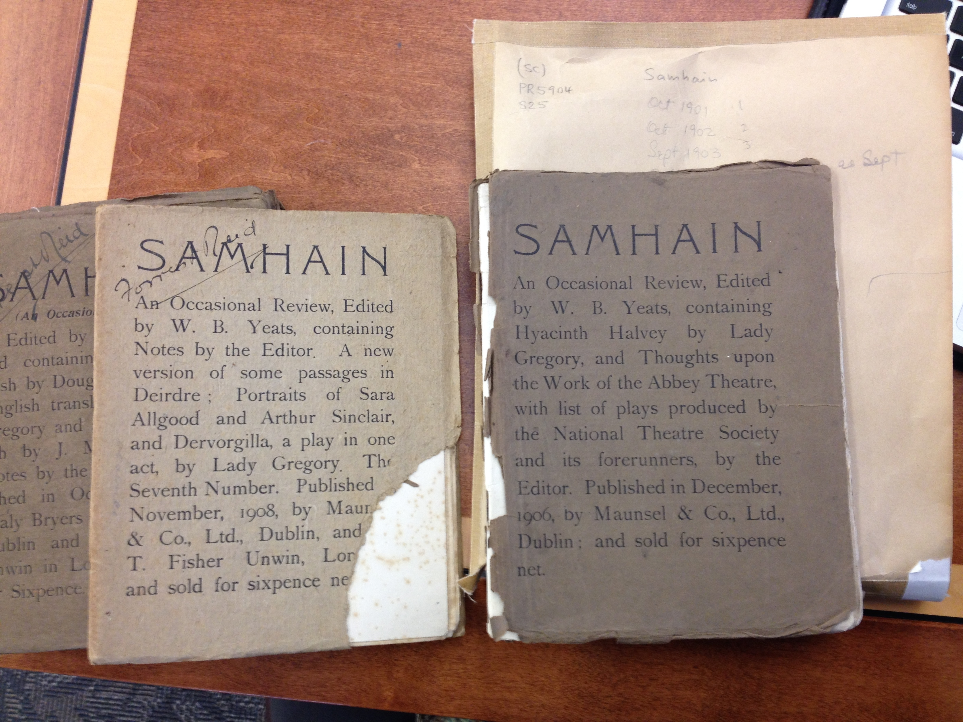 These copies are the first three volumes of Samhain Magazine, published from 1901 - 1903. University of Victoria Library's Special Collections holds volumes 1 - 7 of the occasional publication with the call number PR5904 S25. Some of the copies in UVic's collection are signed by Forrest Reid on the front cover.